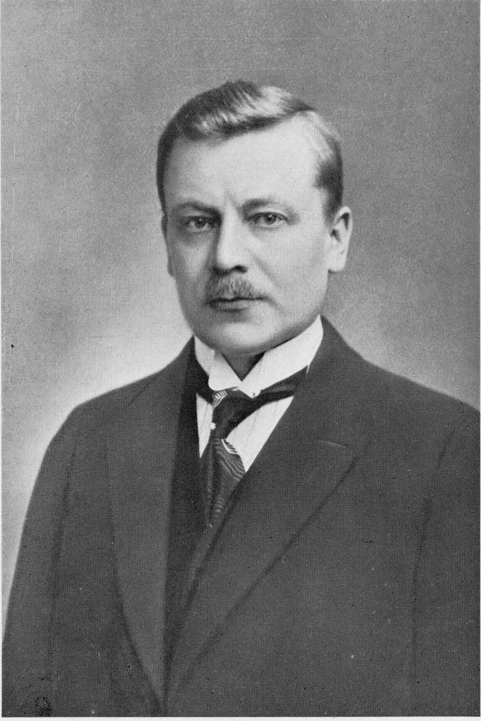 Yrjö Kajava